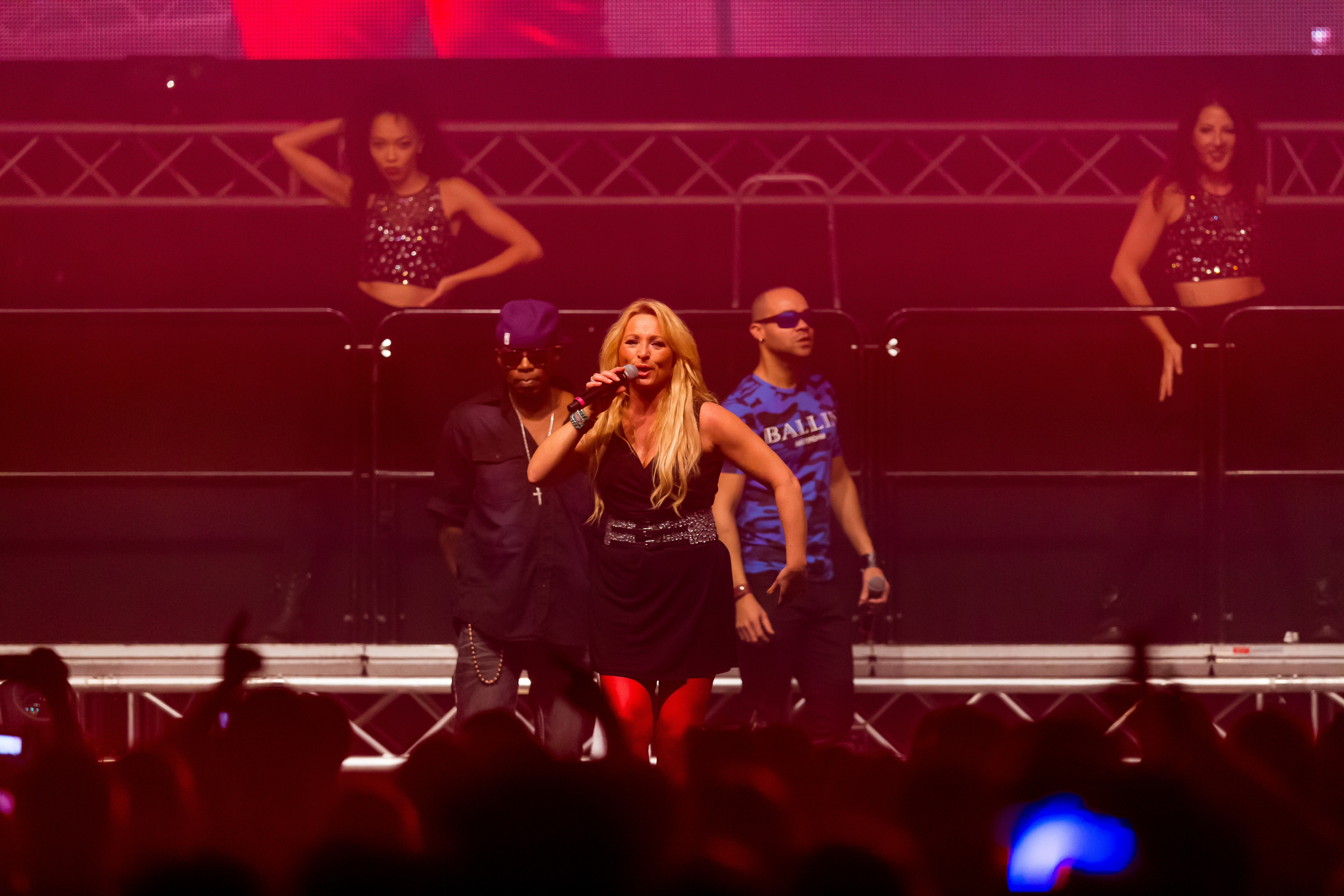 2 Brothers on the 4th Floor during Sunshine Live - 90er Live on Stage at Maimarkt Halle, Mannheim, Baden Württemberg, Germany on 2016-11-27, Photo: Sven Mandel DJ Falk, E-Rotic, Twenty 4 Seven, Rednex, Vengaboys, Masterbox feat. Beatrix Delgado, 2 Brother on the 4th Floor, 2 Unlimited, Interactive, Charly Lownoise, Marusha